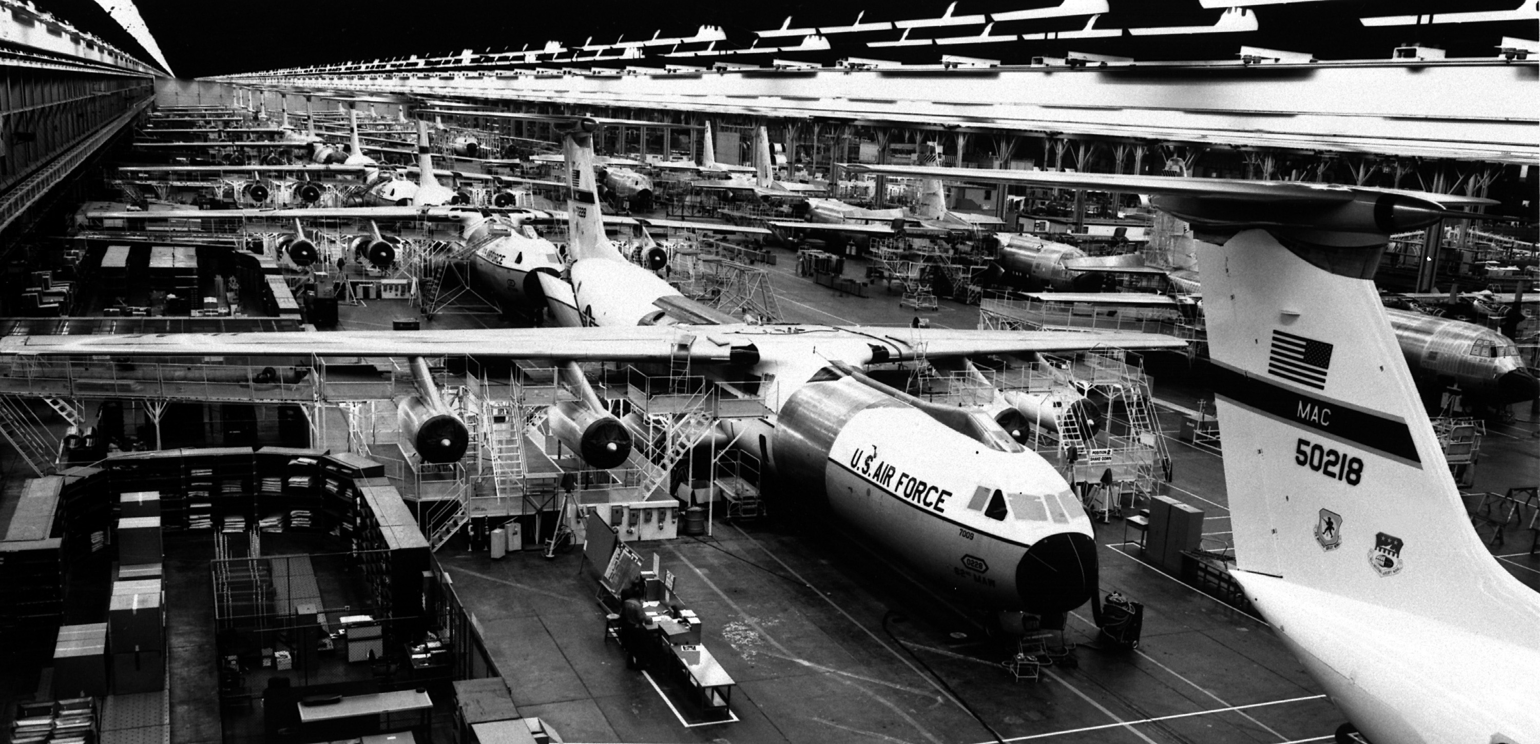 An overhead view of the assembly line at the Lockheed aircraft plant on 1 June 1980. On the left C-141A Starlifter aircraft are being converted to the B models with the addition of two 5.18 m (17 ft) diameter cylinders, placed in the fuselage. On the right new C-130 aircraft are being assembled.